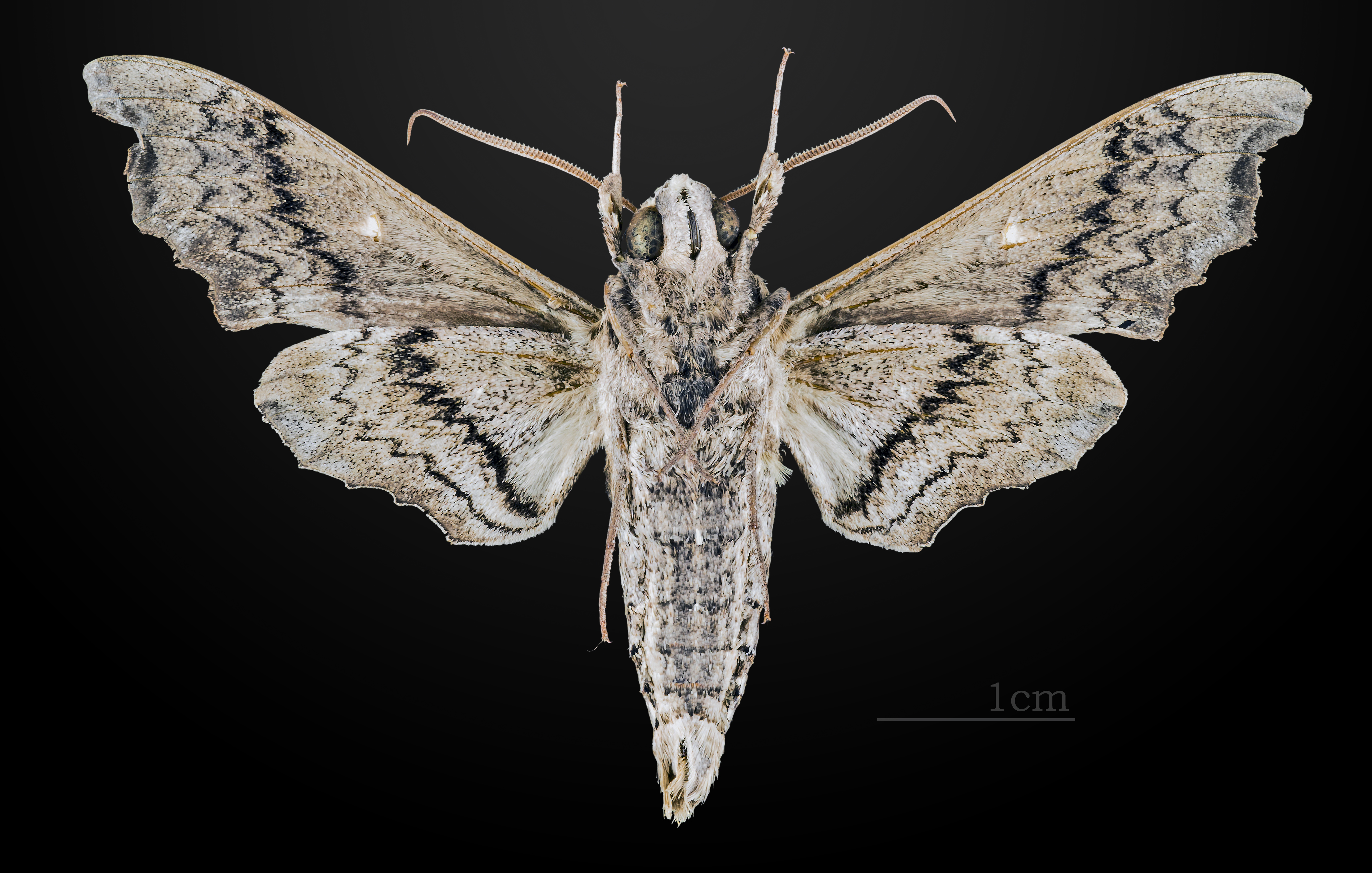 false-windowed sphinx - △ Ventral side Collection of the Mathematician Laurent Schwartz